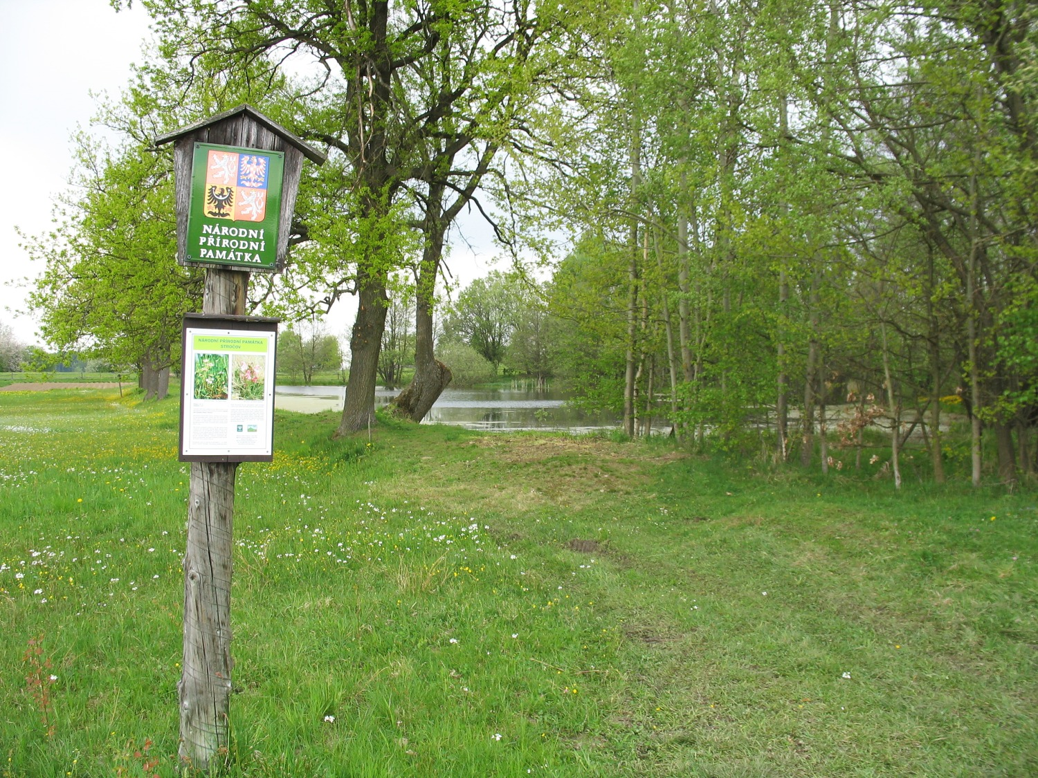 National natural monument Stročov in Tábor District, Czech Republic